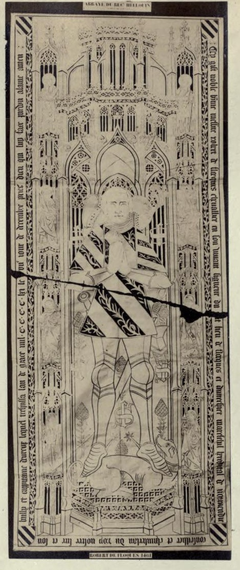 Illustration after a stone rubbing by Léon Le Métayer-Masselin in his book Collection de dalles tumulaires de la Normandie. It shows a ledger stone of Robert de Flocques (1437-1461) that is now in the church of Boisney (Eure, France).